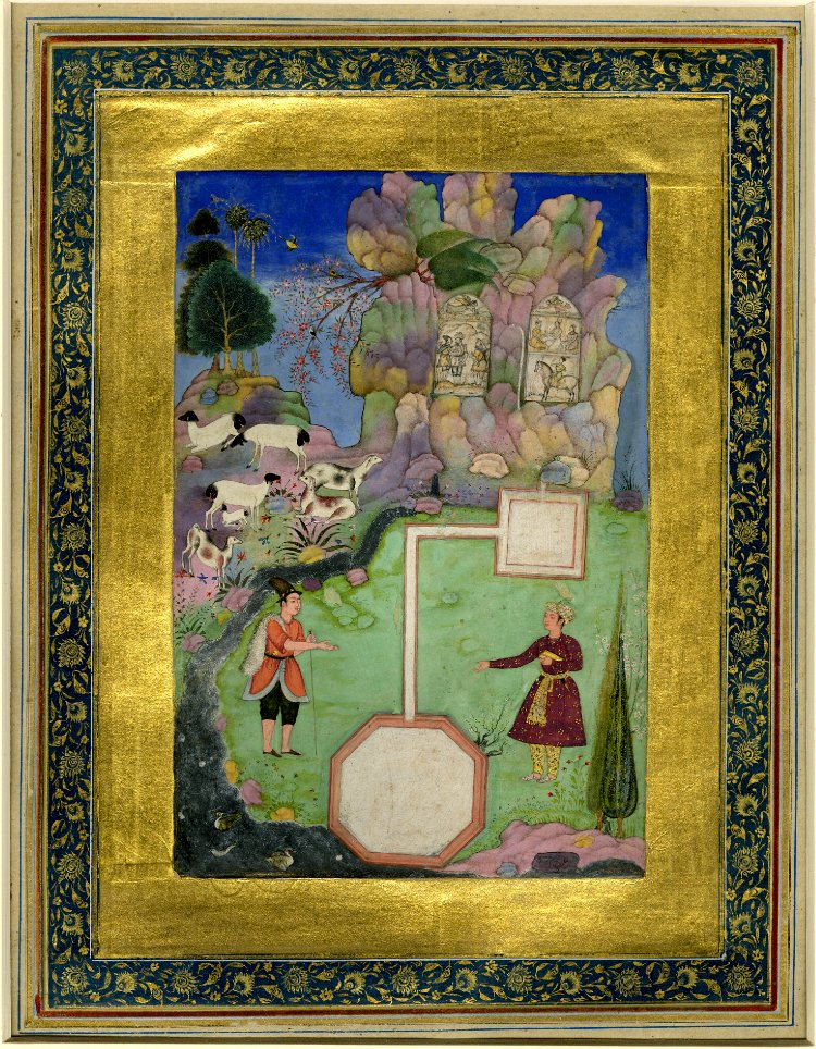 The sculptor, Farhad, left, and a male figure, perhaps Khusrau, right, stand on either side of the canal built to supply Shirin with the milk of goats and cows, taken from the Khamseh of Nizami. On the other side of a small stream stand six goats. A rocky landscape with minimal foliage decorates the background. Text at the top of the page has been overpainted. Painted in opaque watercolour on paper. Out of love for the Persian king, Khusrau, the Armenian queen, Shirin, abandoned her throne and took up residence in the unhealthy region of Kirmanshah. To slake Shirin's thirst for milk, a sculptor named Farhad was employed to fashion a canal that would run from distant pastures and carry the milk of goats and cows to Shirin's palace. The text panels on this page were probably removed when the painting was mounted in an album.